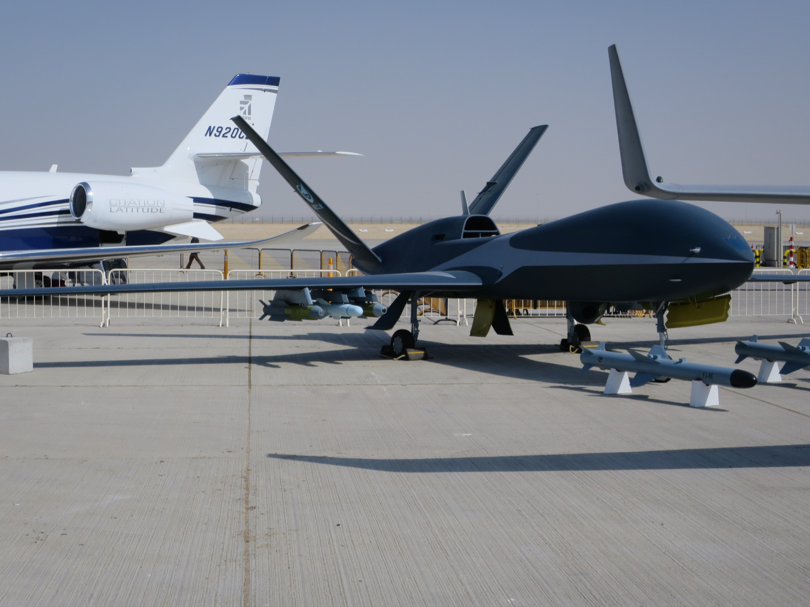 AVIC Cloud Shadow at Dubai Air Show 2017